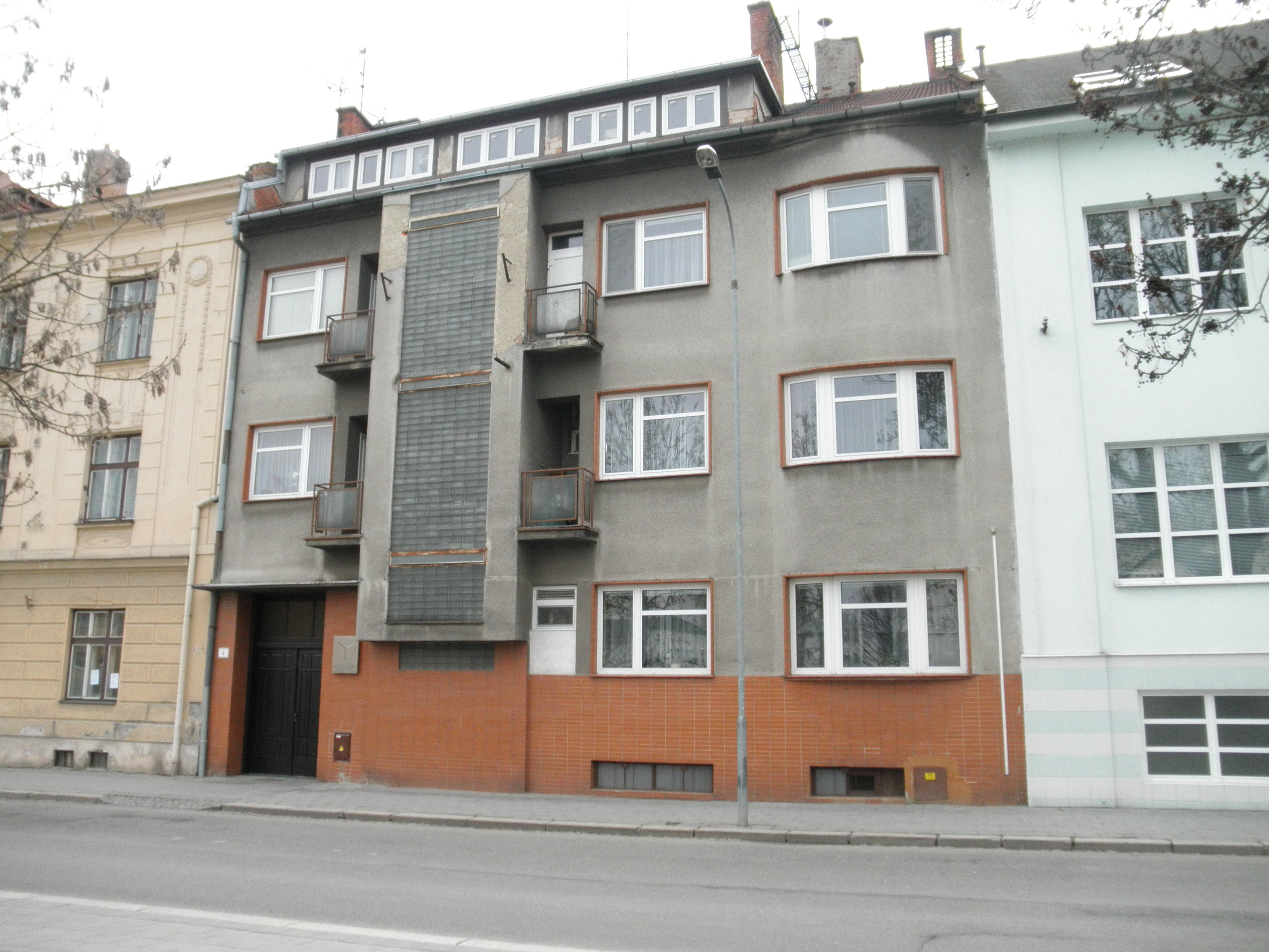 Here-lived house of Czech aviator Josef Duda at 6 Sádky street in Prostějov.